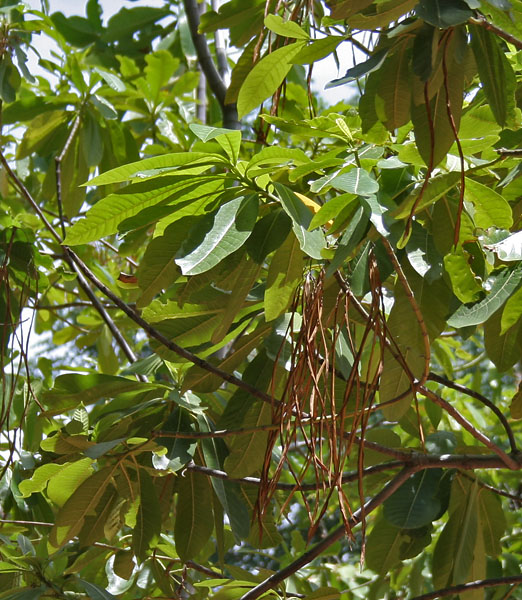 Batino Alstonia macrophylla in Hyderabad , India.